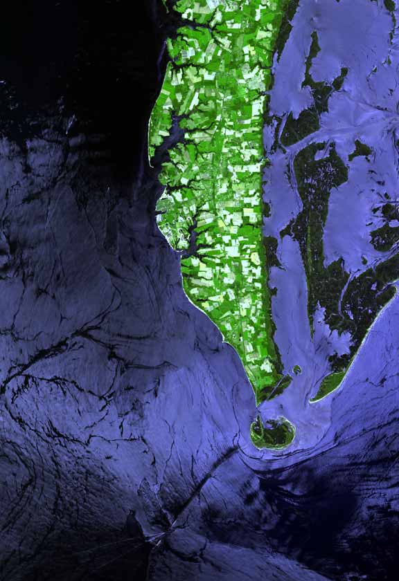 The raw satellite imagery shown in these images was obtain from NASA and/or the US Geological Survey. Post-processing and production by